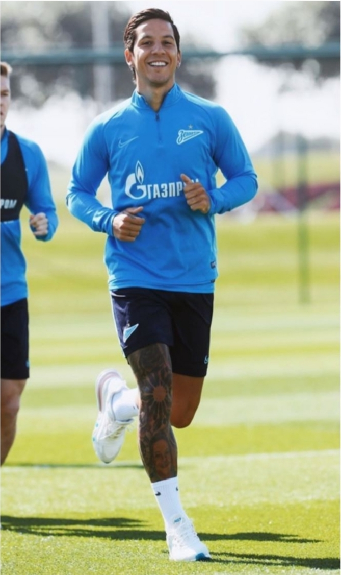 Driussi during Gazprom Training Camp at Qatar, January 2020